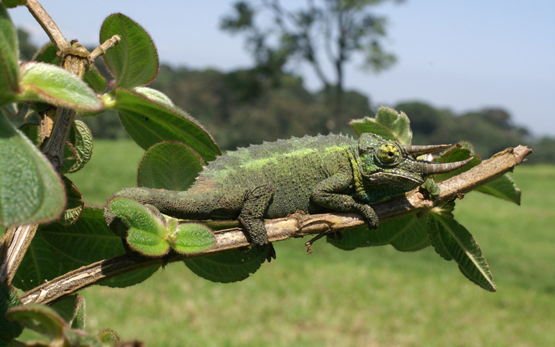 Jackson's Chameleon